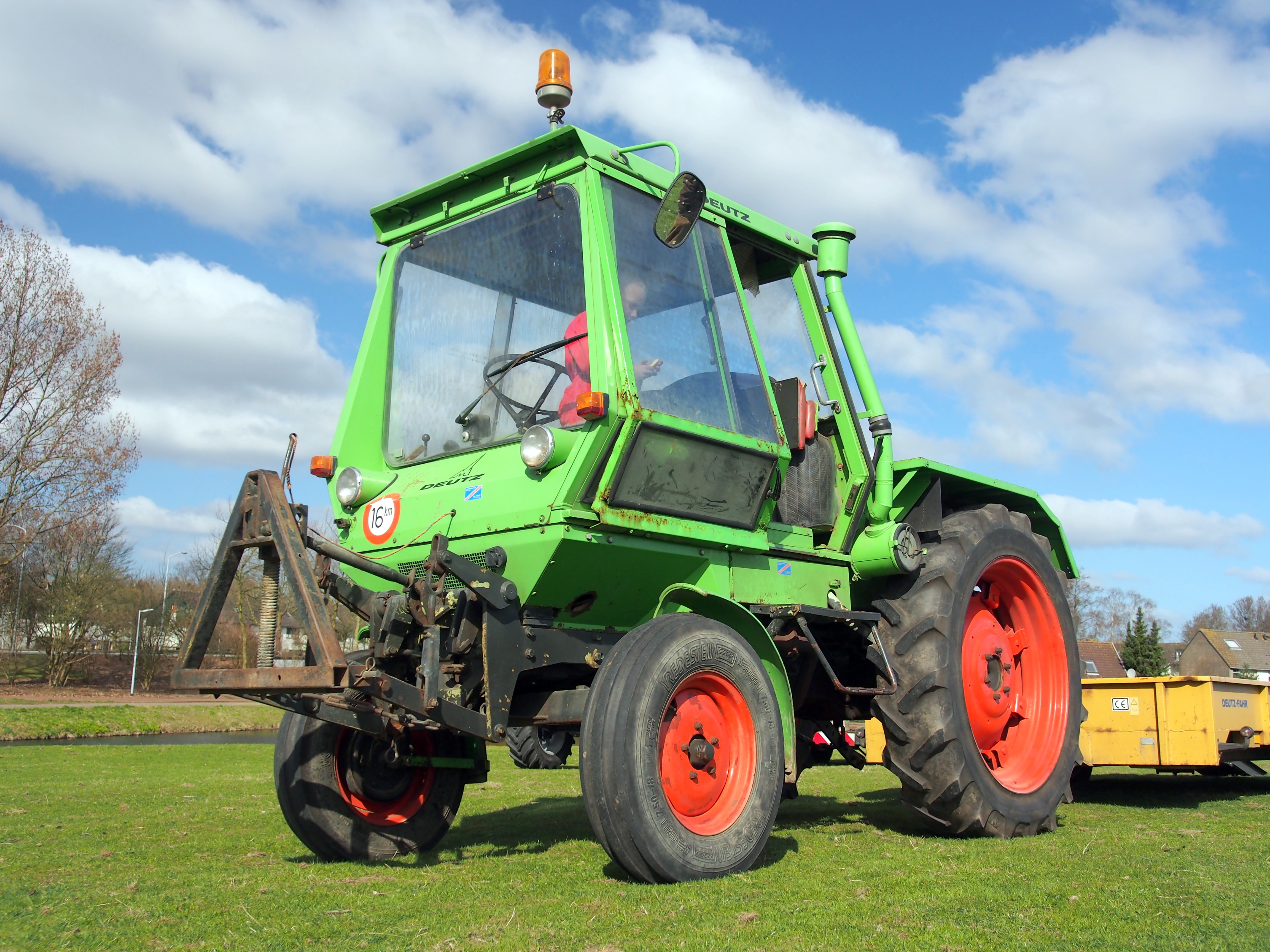 Crafts day at Hoofddorp, The Netherlands.